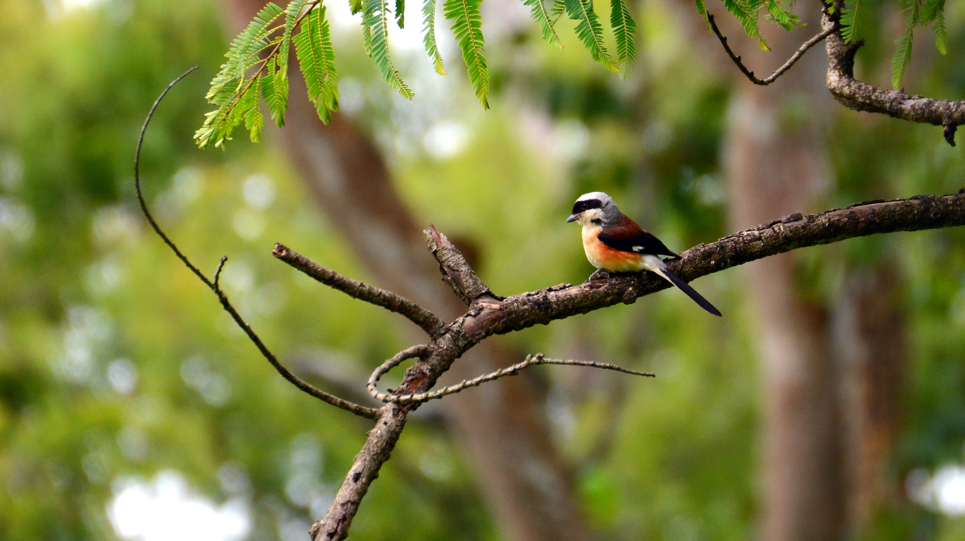 Bay-Backed Shrike at Bandipur Tiger Reserve